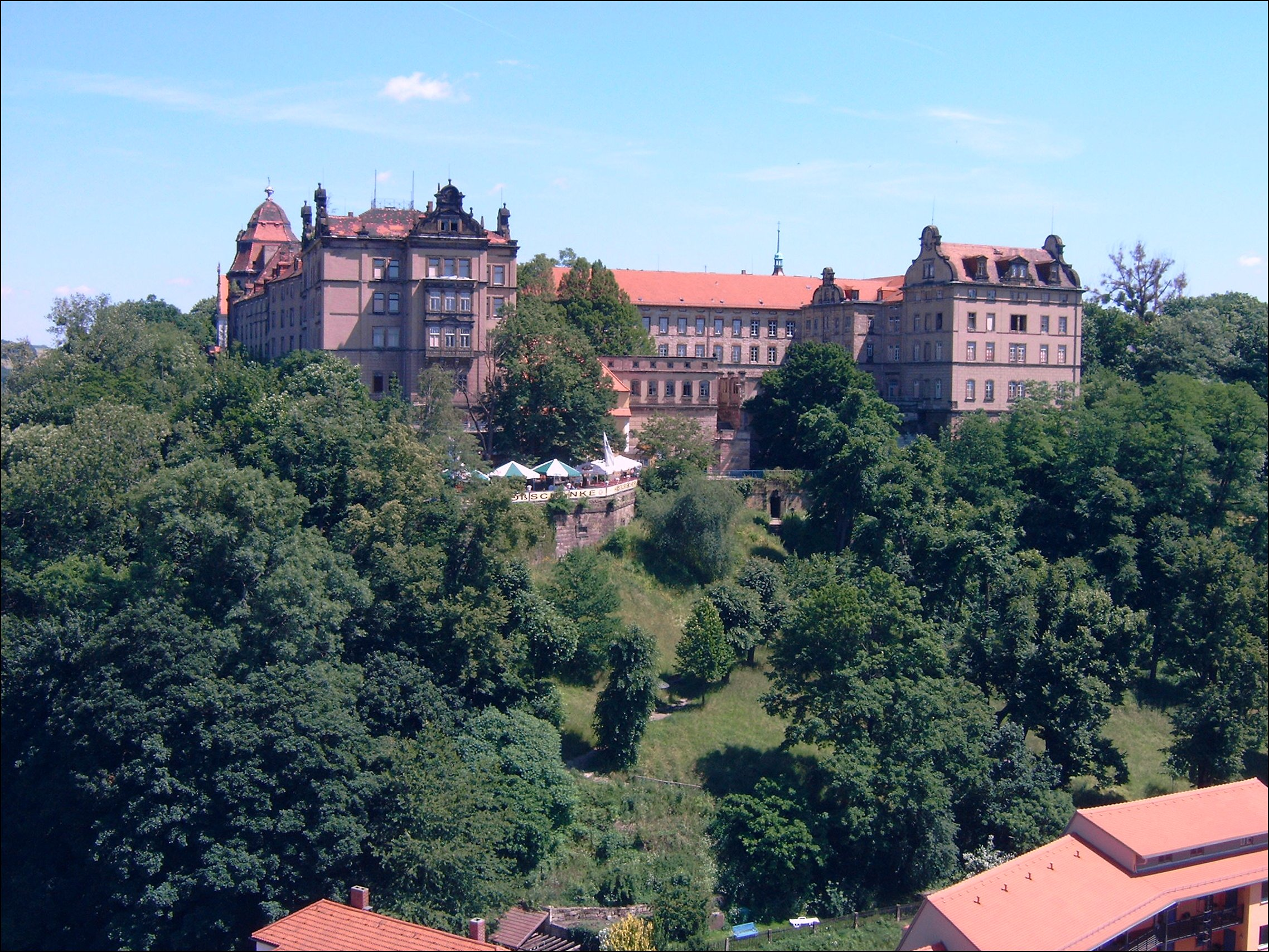 This image shows Schloss Sonnenstein in Pirna.